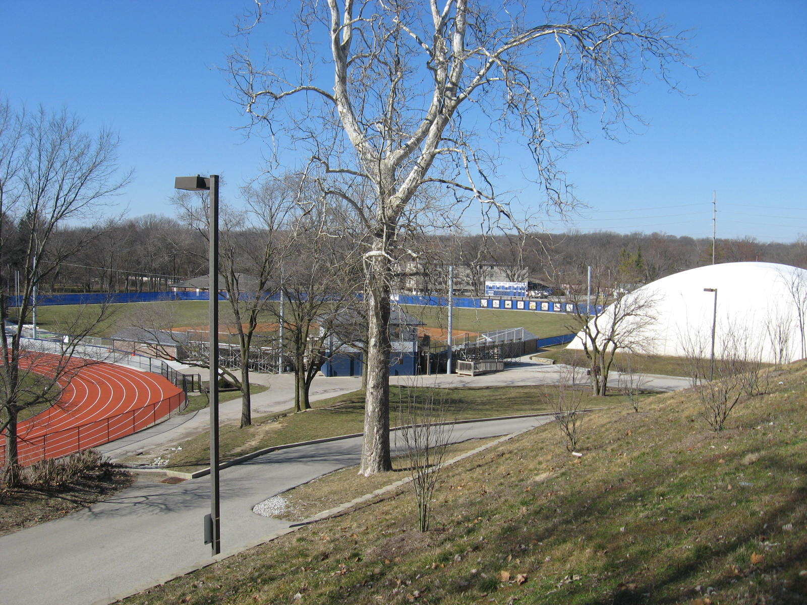 Davey Athletic Complex